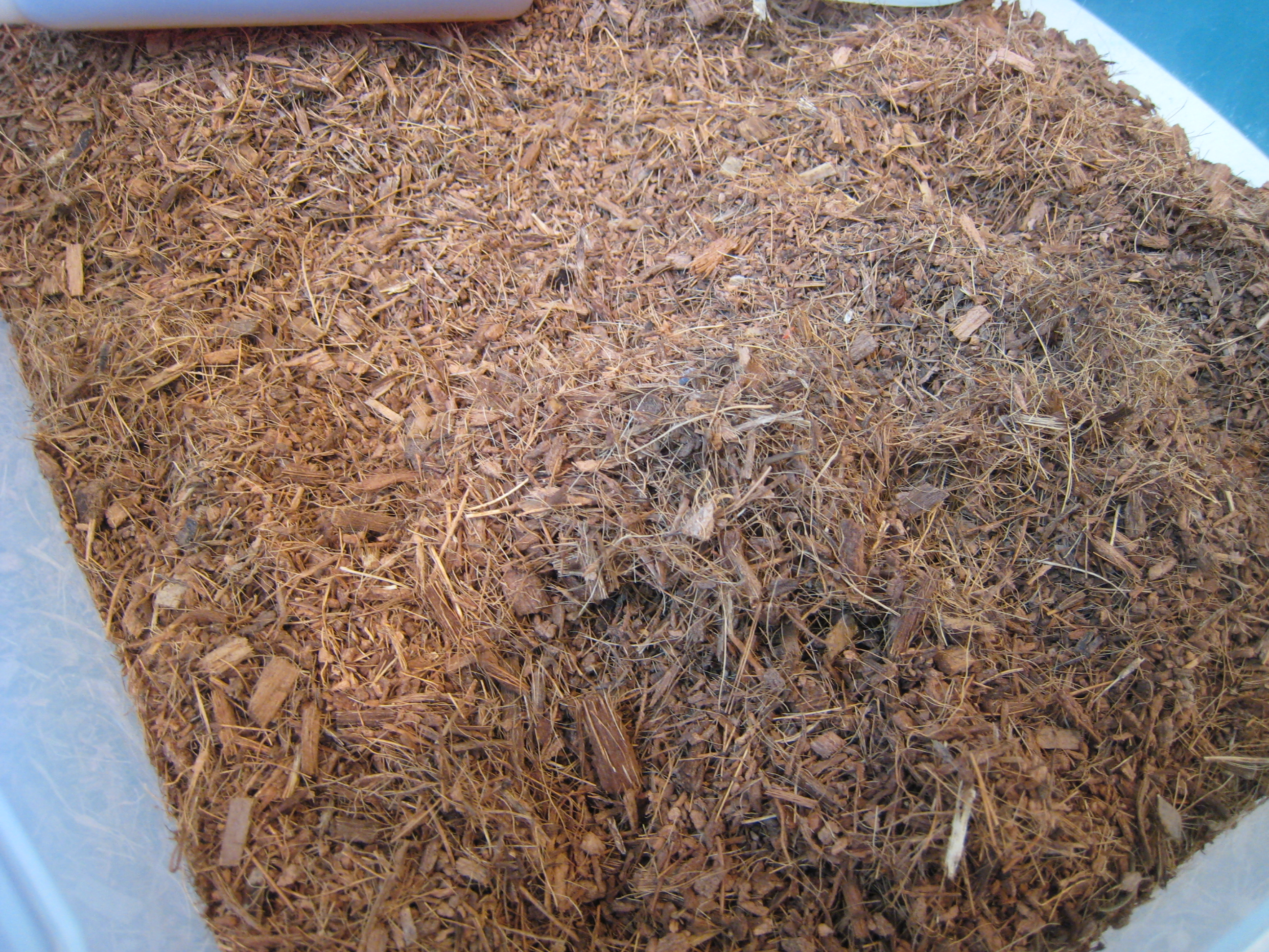 Shredded coconutfibres as planting material instead of (for example) humus